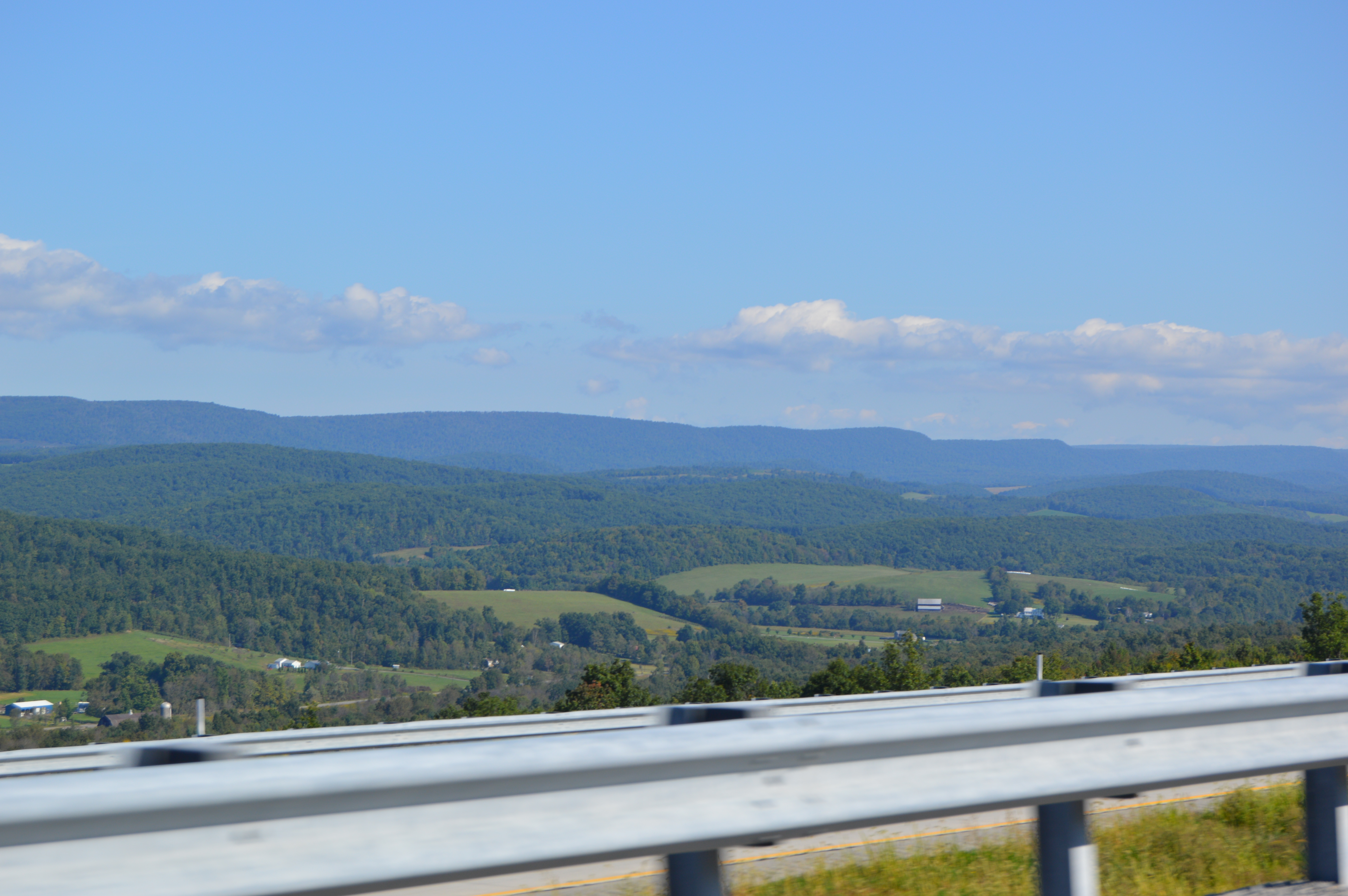 Looking northwest from Interstate 99 in far southern Taylor Township, Centre County, Pennsylvania, United States. The foreground is typical of the ridge-and-valley Appalachians — the photo is taken from Bald Eagle Mountain, looking down into a valley below, but the terrain in the distance is the rolling hills of the Unglaciated Allegheny Plateau.